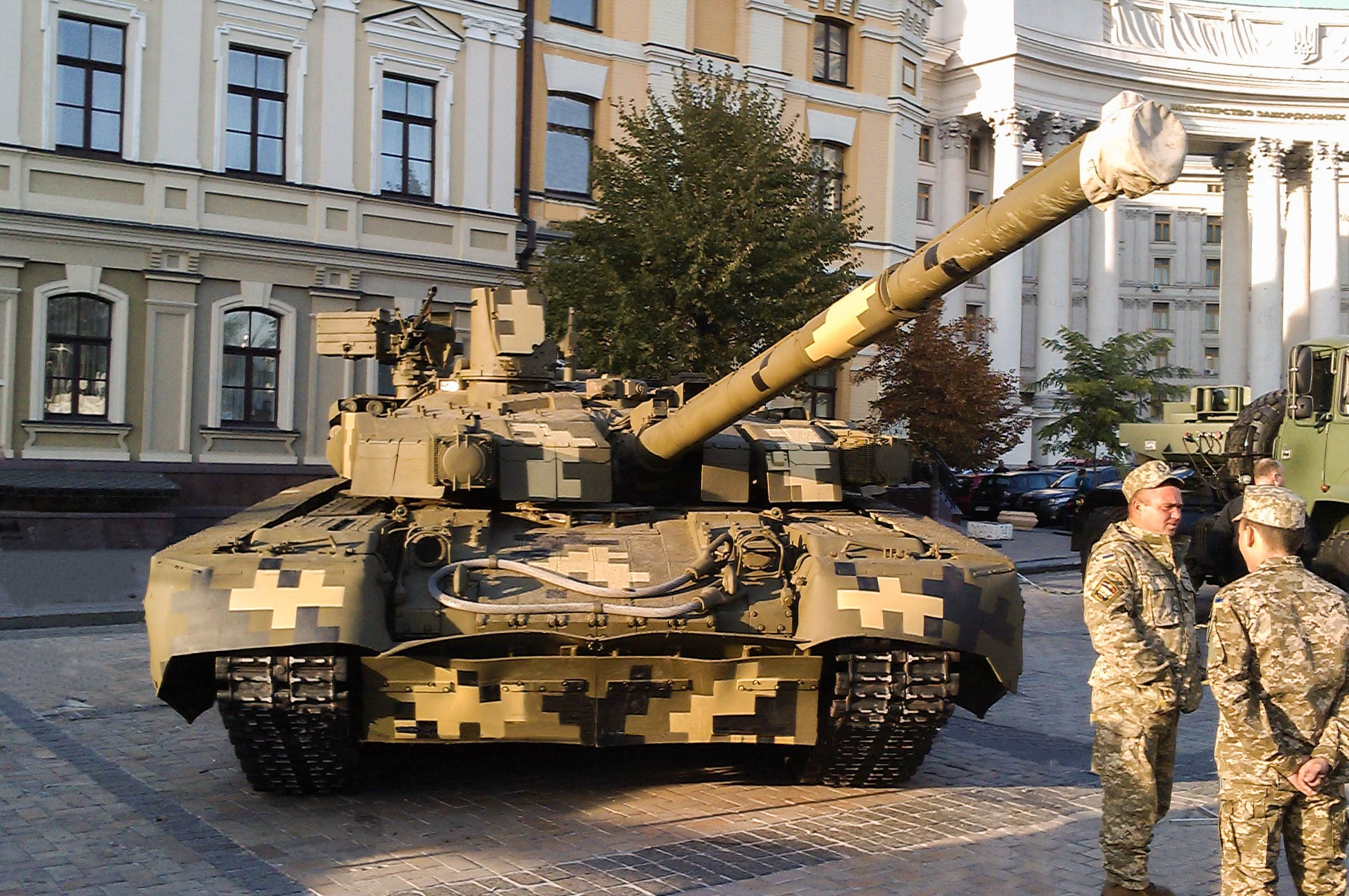 BM «Oplot» at the exhibition «The Power of unconquered» on the Day of the defender of Ukraine